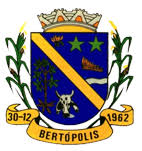 Photo of Coat of Bertópolis City - Minas Gerais